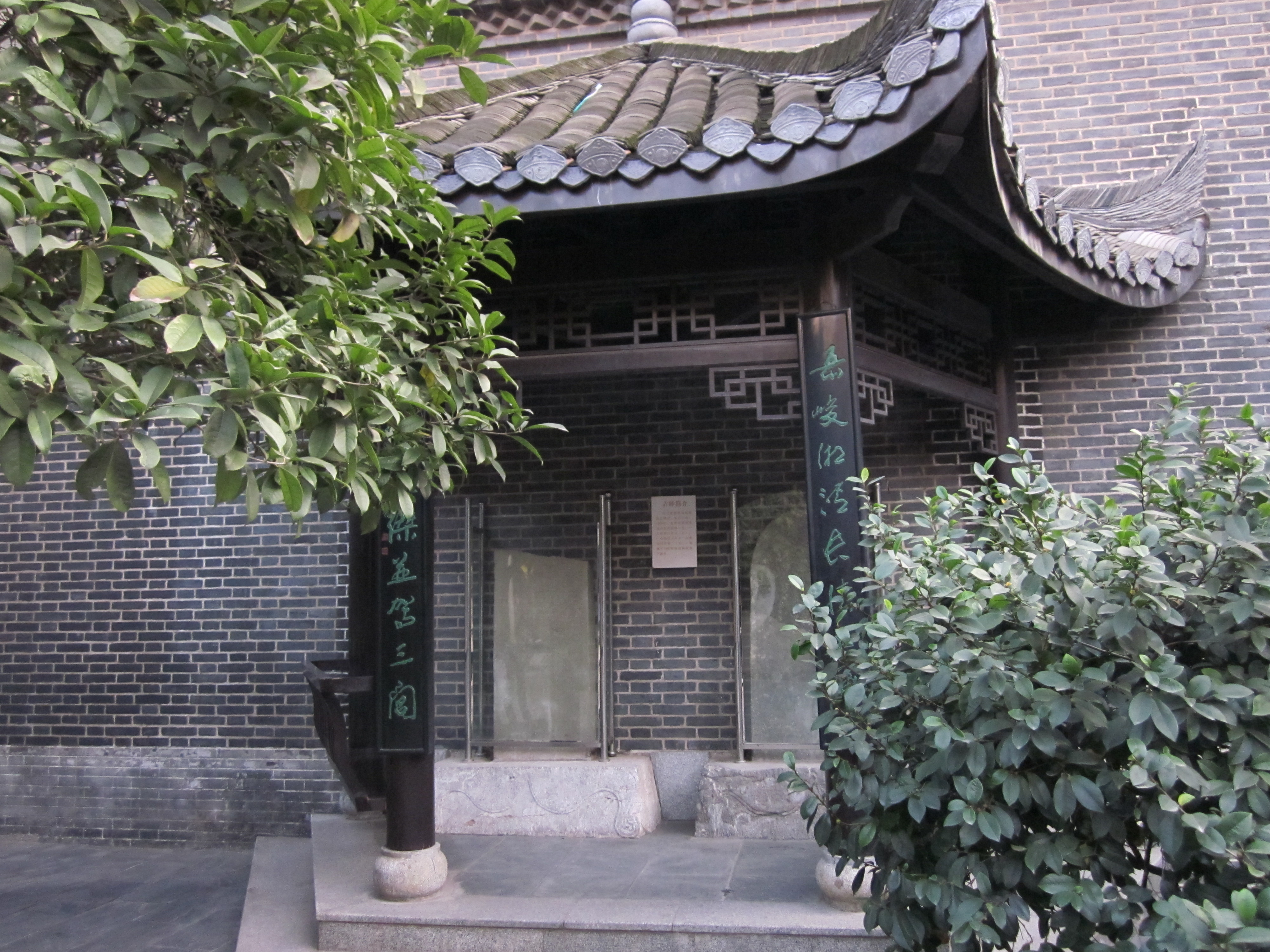 Former residence is located in China jia yi changsha in hunan liberation west road and peace at the street corner, the former residence of hunan province jia yi is protected units of cultural relics.